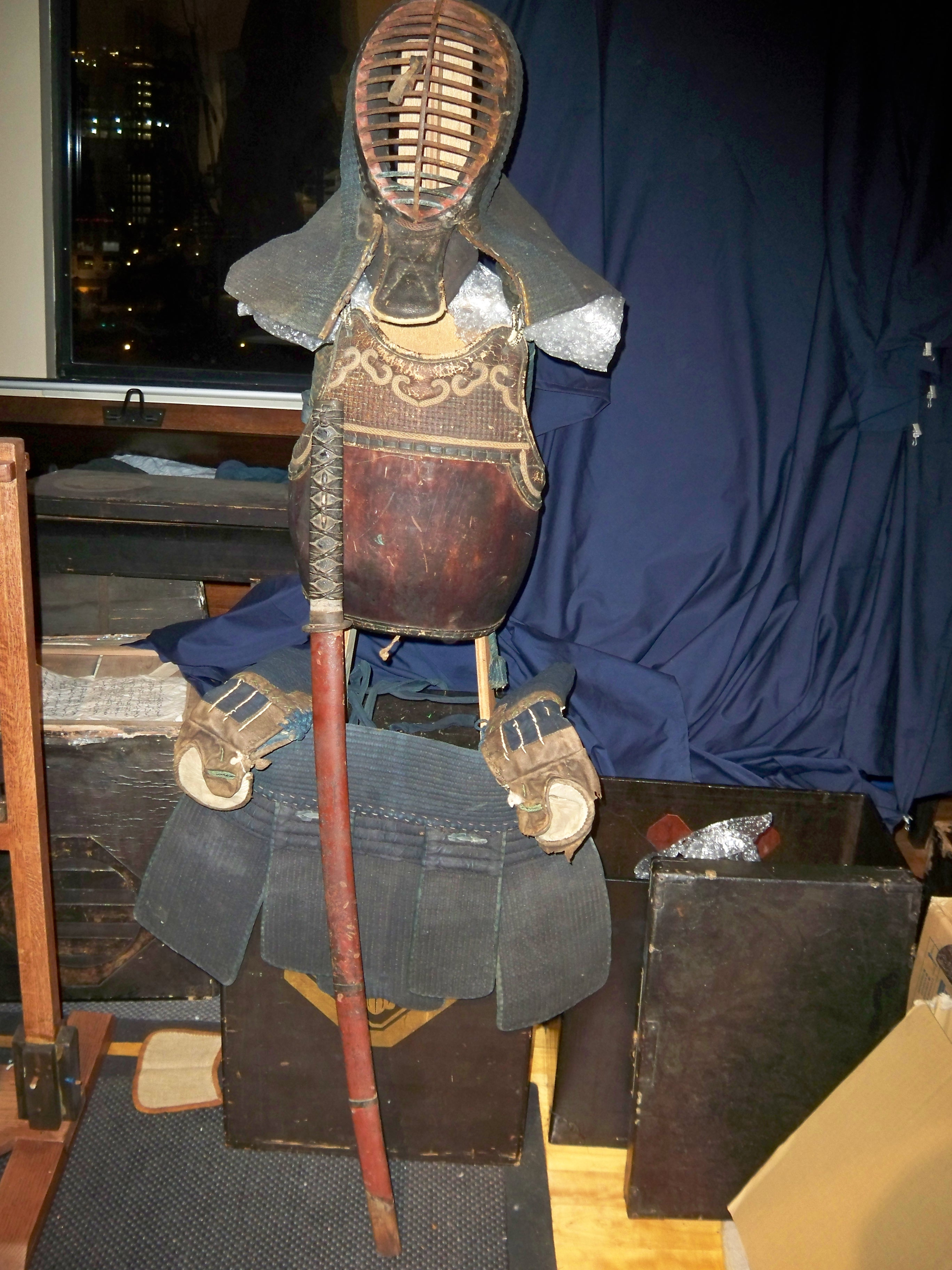 Antique Japanese kendo equipment "Bōgu".